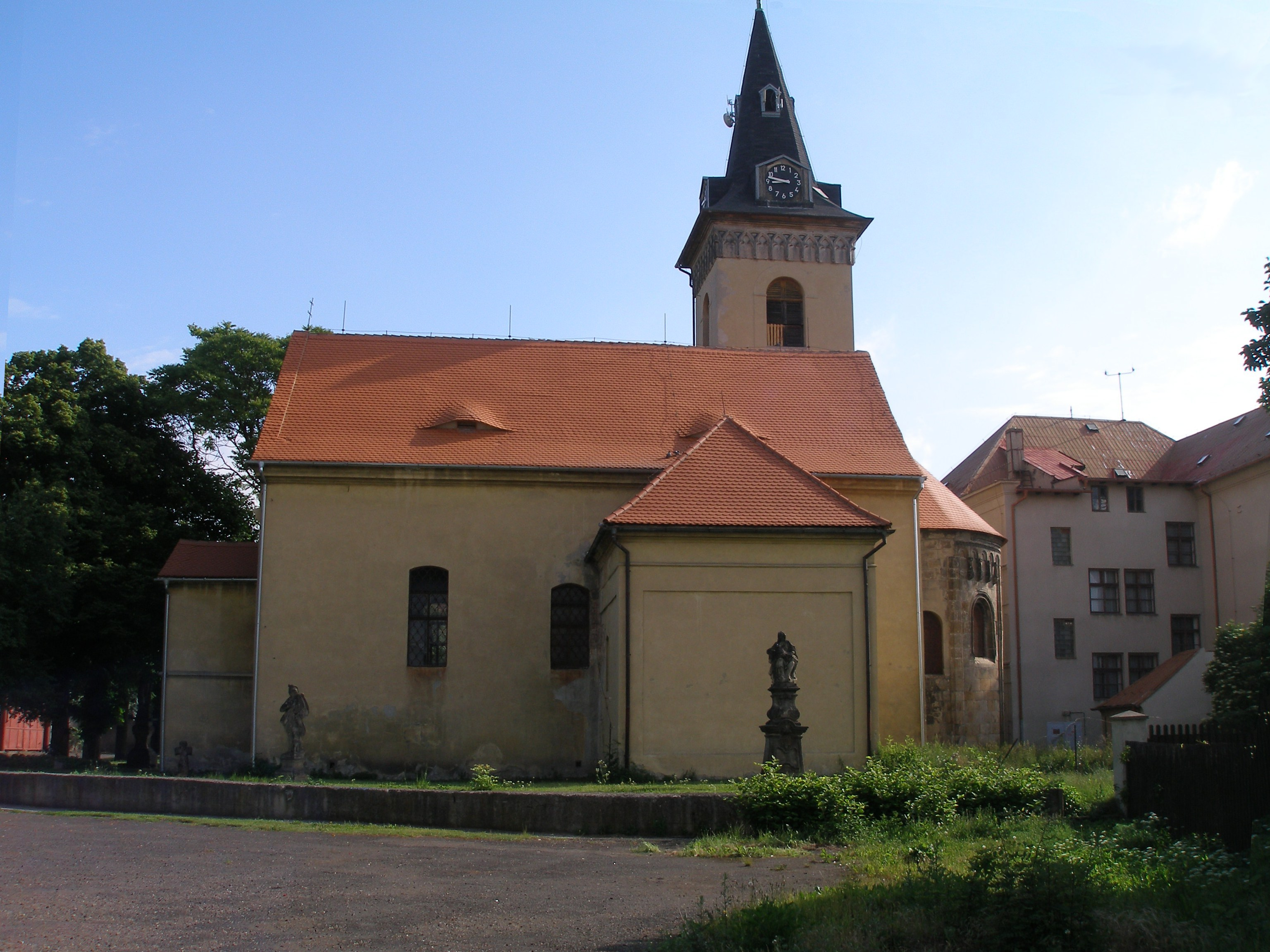 Údlice - the Southern view of the church